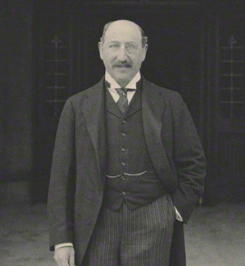 Sir Herbert Raphael, owner of Allestree Hall, 1908